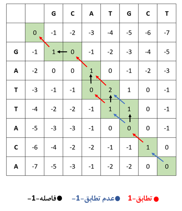 هم تراز سازی دو رشته به وسیله الگوریتم نیدلمن وانچ